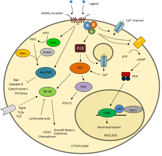 Important signaling pathways associated with the GABAB receptor. AC, Adenylate cyclase; Bad, Bcl-2-associated death promoter; COX2, cyclooxygenase-2; Erk1/2, Extracellular signal-regulated kinase 1/2; TCR, T cell receptor; TLR, Toll-like receptor; TNFR, tumor necrosis factor receptor. ten Hoeve AL (2012). GABA receptors and the immune system. Thesis, Utrecht University